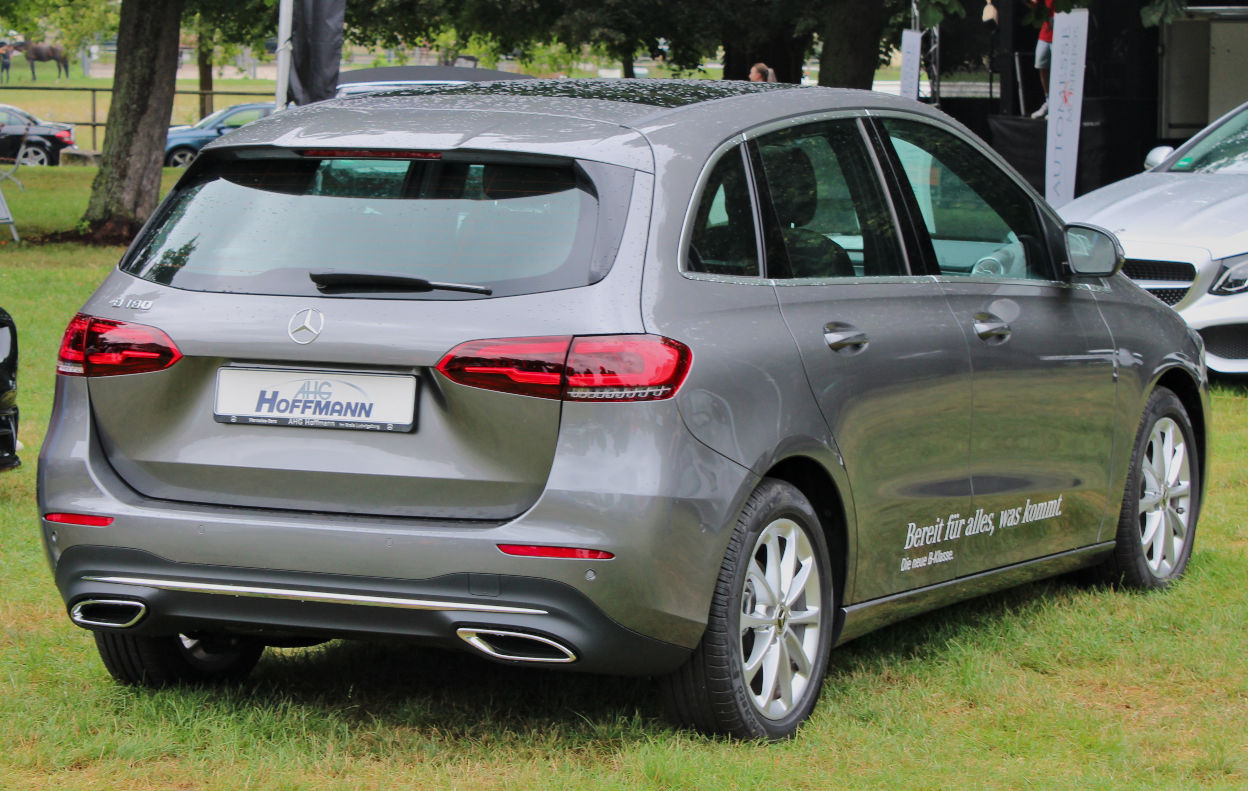 Mercedes-Benz B 180 at Schloss Monrepos 2019